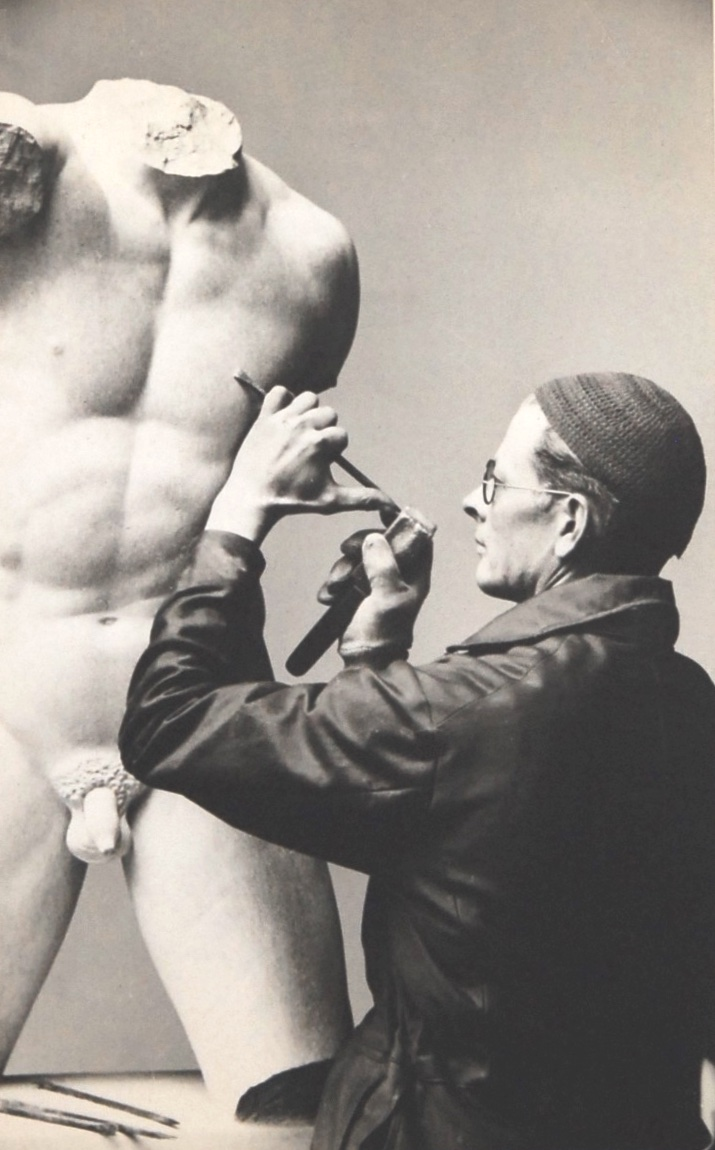 The american sculptor Cecil Howard in his studio in 1930, finishing his direct cutting stone sculpture entitled "Male Torso", presented in the american pavilion of the 1937 Paris International Exposition, and rewarded of the grand prize.